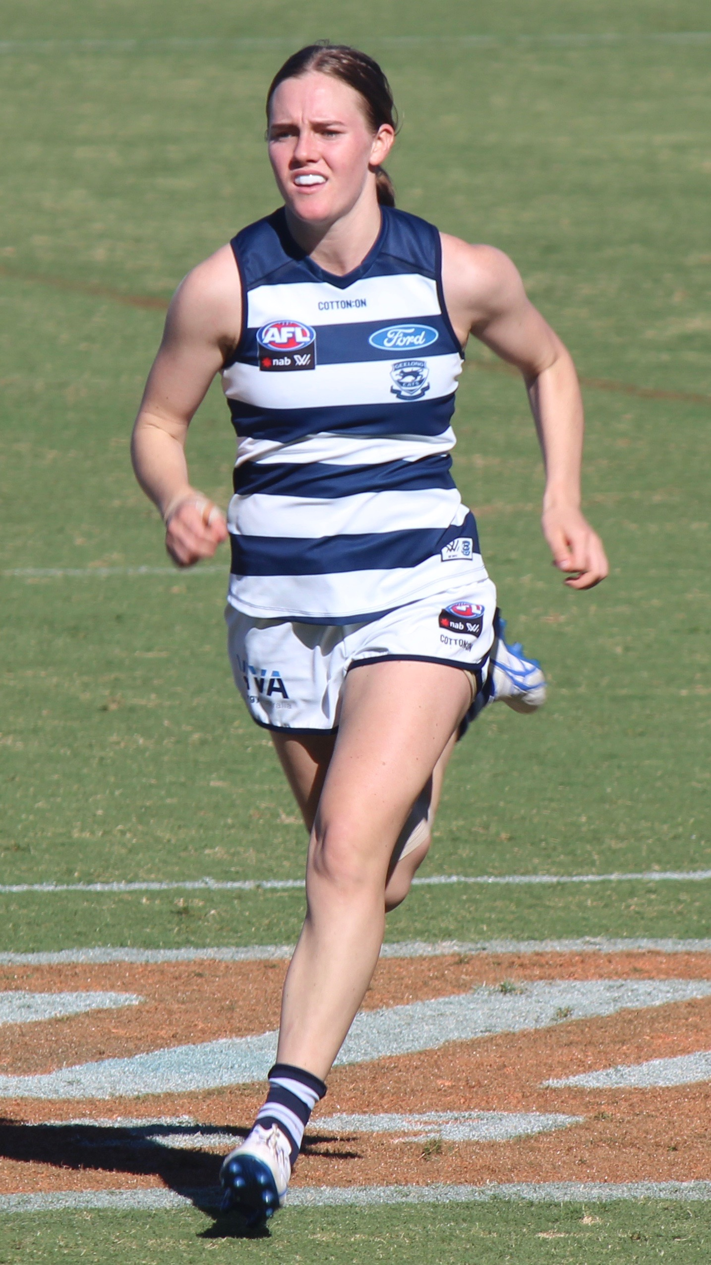 Denby Taylor with Geelong during a match against Carlton at Kardinia Park in round 4 of the 2019 AFL Women's season.